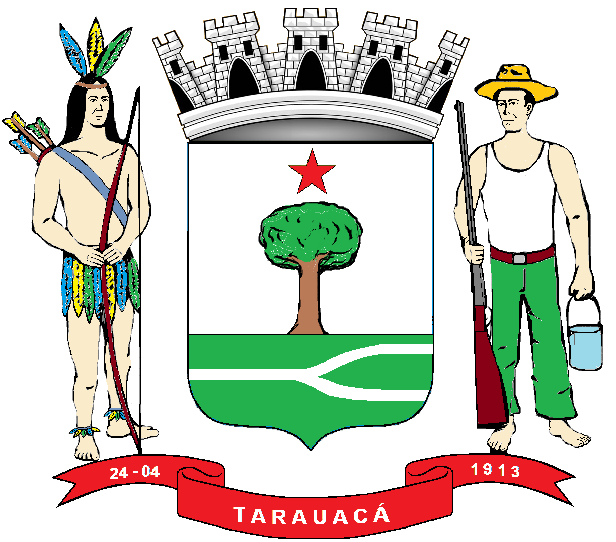 Coat of arms of Tarauacá, Acre state, Brasil Emerson